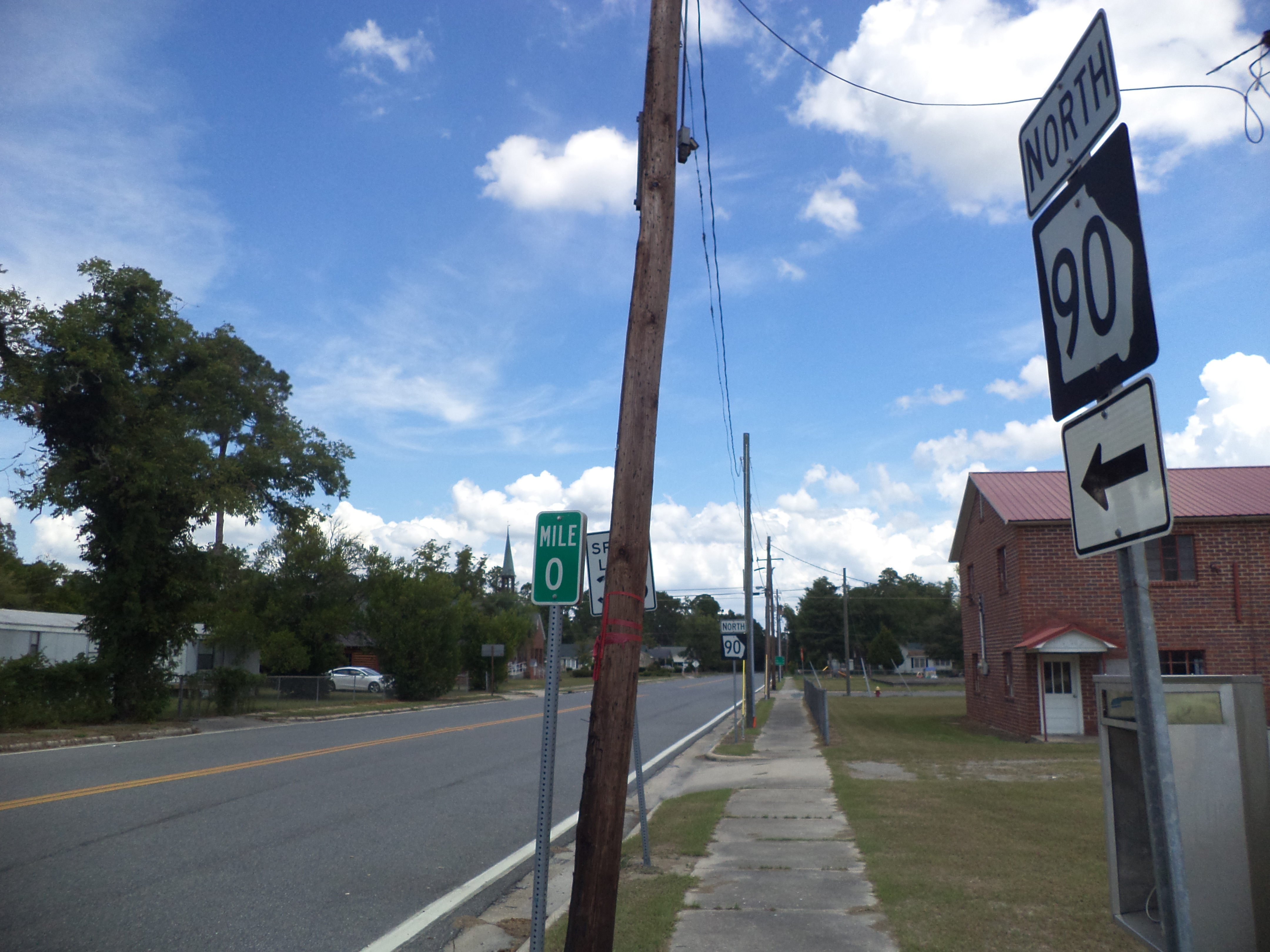 Georgia State Road 90 NB begin Willacoochee, Atkinson County, Georgia